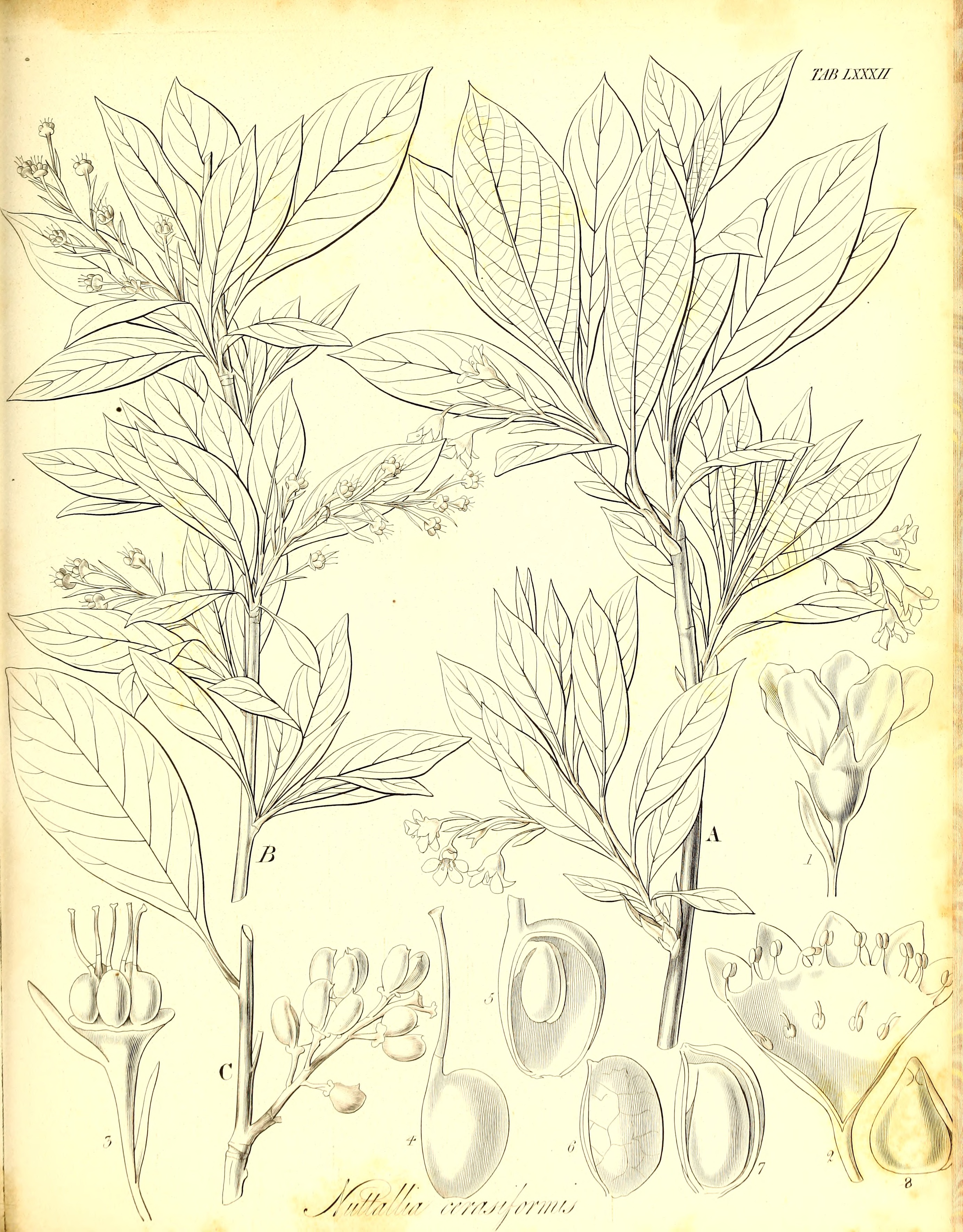 Title: The botany of Captain Beechey's voyage; comprising an acount of the plants collected by Messrs. Lay and Collie, and other officers of the expedition, during the voyage to the Pacific and Behring's Strait, performed in His Majesty's ship Blossom, under the command of Captain F. W. Beechey ... in the years 1825, 26, 27, and 28 Year: 1841 (1840s) Authors: Hooker, William Jackson, Sir, 1785-1865; Arnott, George Arnott Walker, 1799-1868, joint author; Beechey, Frederick William, 1796-1856 Subjects: Blossom (Ship); Botany; Botany; Botany Publisher: London, H. G. Bohn Text Appearing Before Image: ' Text Appearing After Image: '